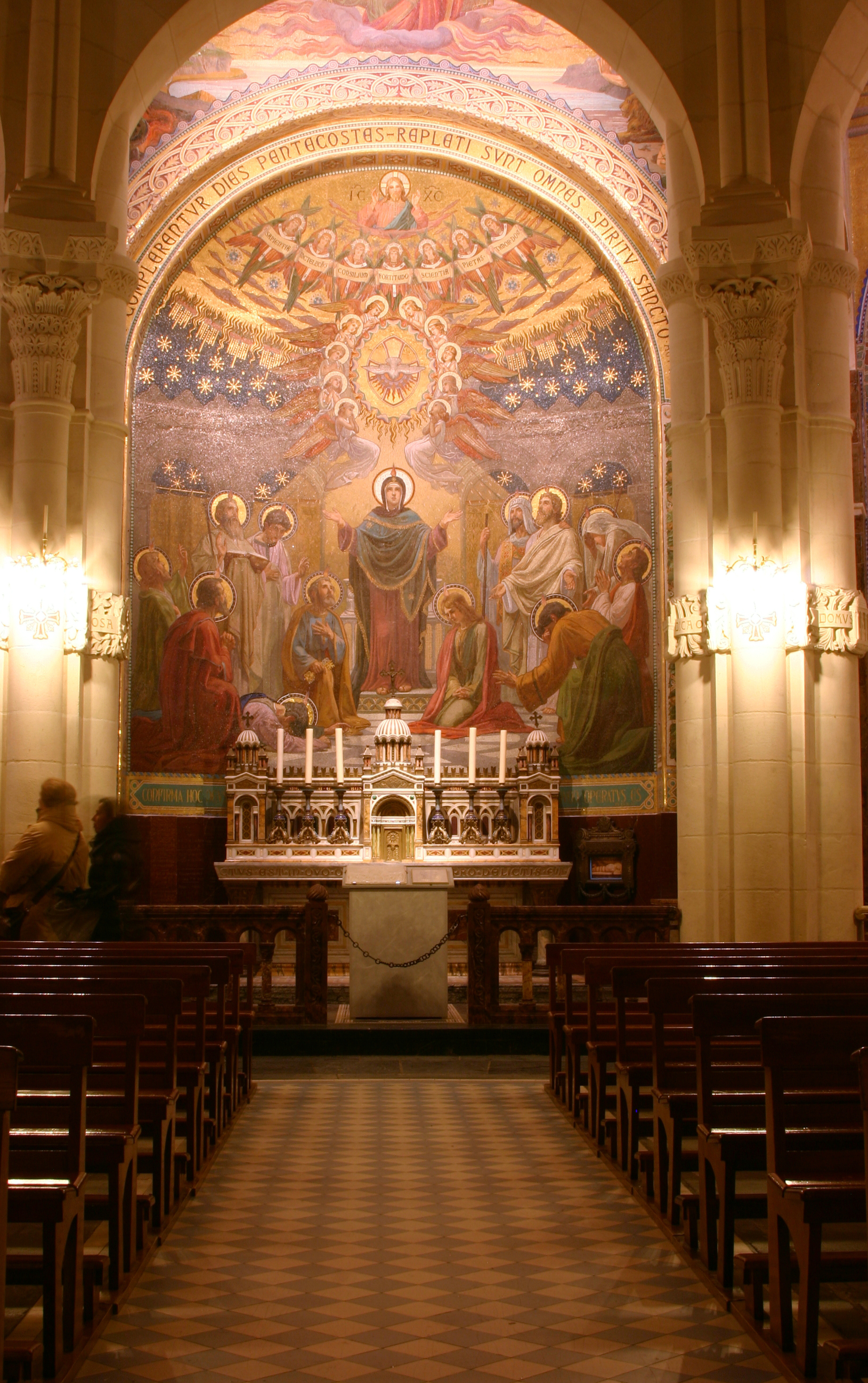 Rosary Basilica - Lourdes